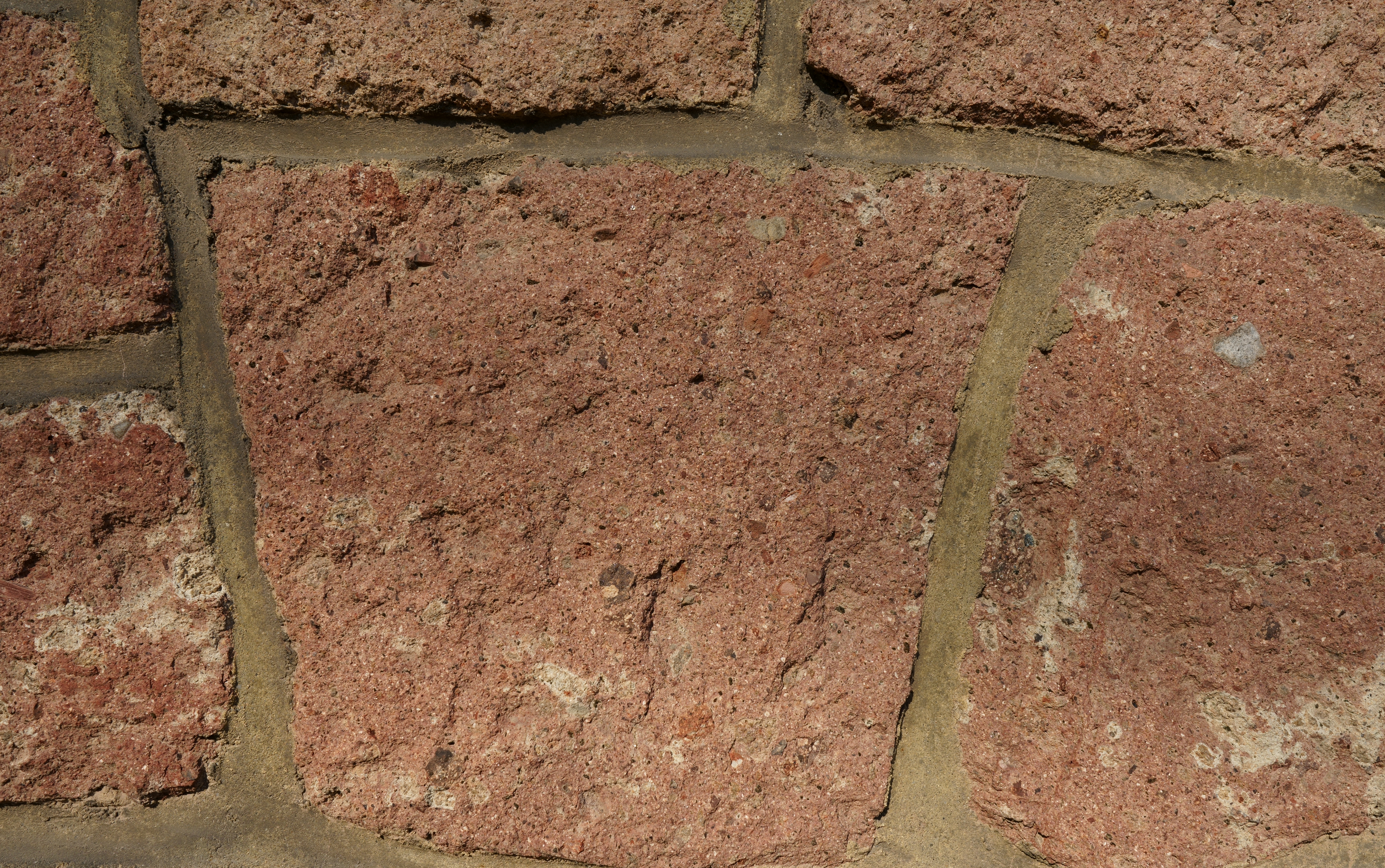 Tuf filipowicki. Church in Filipowice